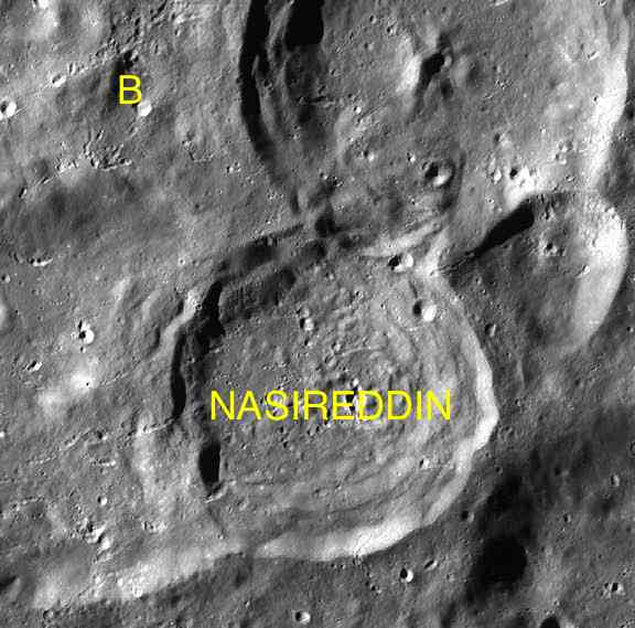 Part of the chart LAC-112 used for the presentation